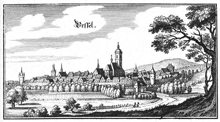 View on Oberursel, Germany in teh year 1646 by Mattaeus Merian